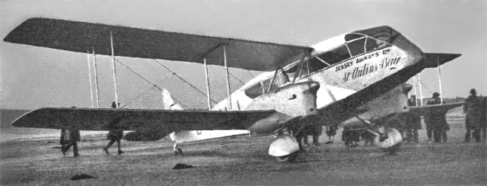 De Havilland DH.84 Dragon 2 (G-ACMJ) "St Aubin's Bay" of Jersey Airways, at West Park beach, St Aubins Bay, Jersey, 1933